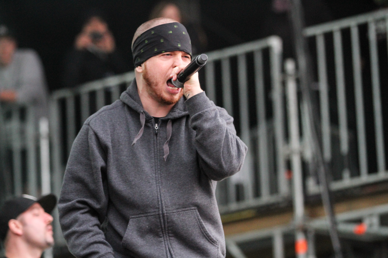 Festivalsommer This photo was created with the support of donations to Wikimedia Deutschland in the context of the CPB project "Festival Summer".